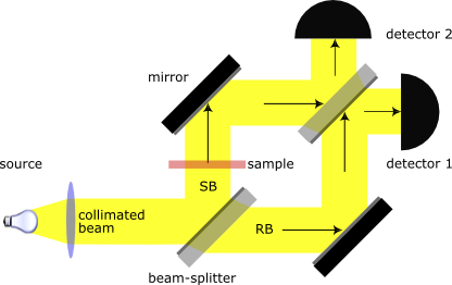 Working scheme of Mach–Zehnder interferometer.